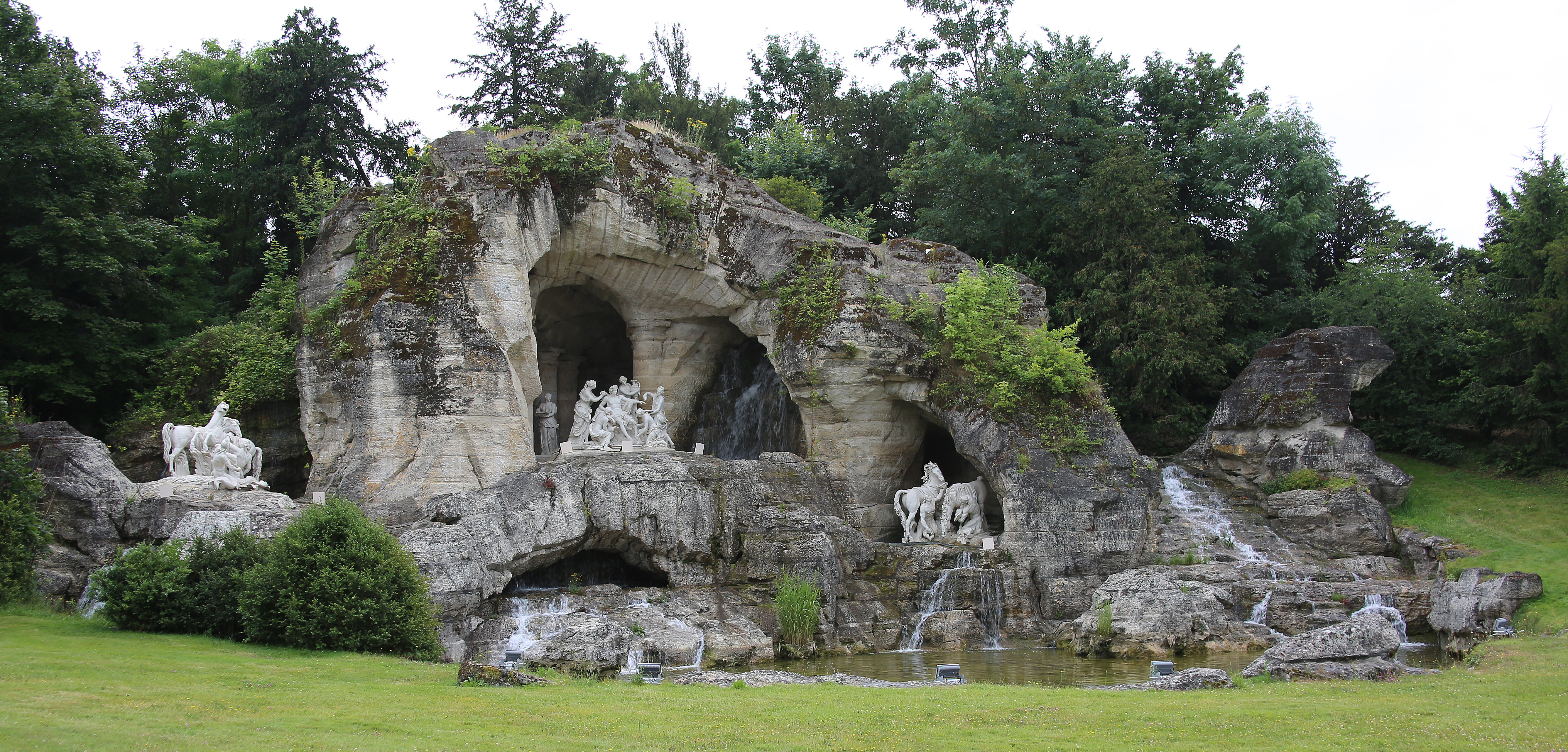 Grotto of Thetis at Versailles